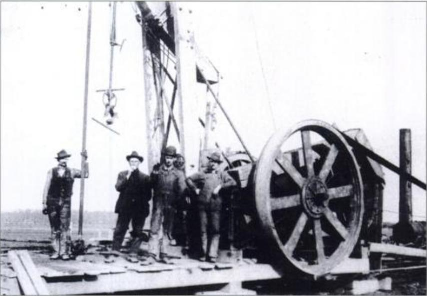 An image of natural gas drillers with a drill near Kokomo Indiana, c. 1885